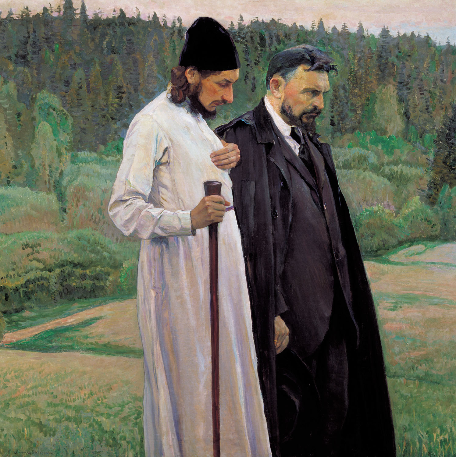 This is a portrait of Russian philosophers Pavel Florensky and Sergei Bulgakov.